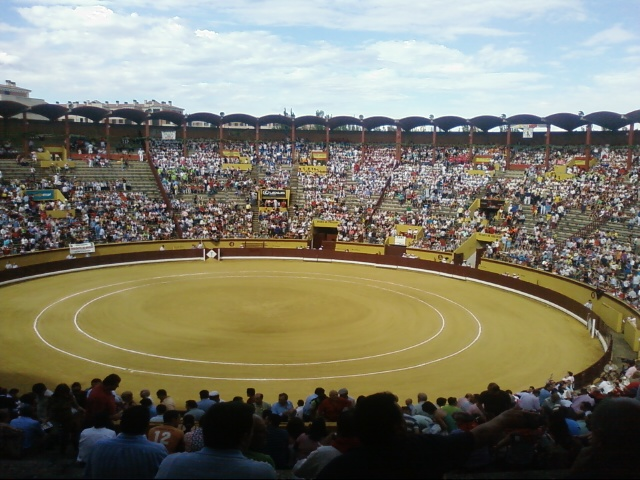 The Burgos bullring, nowadays known as Coliseum Burgos, during a corrida before its renovation.